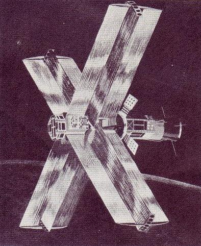 MTS-A (Meteoroid Test Satellite A) or Explorer-46